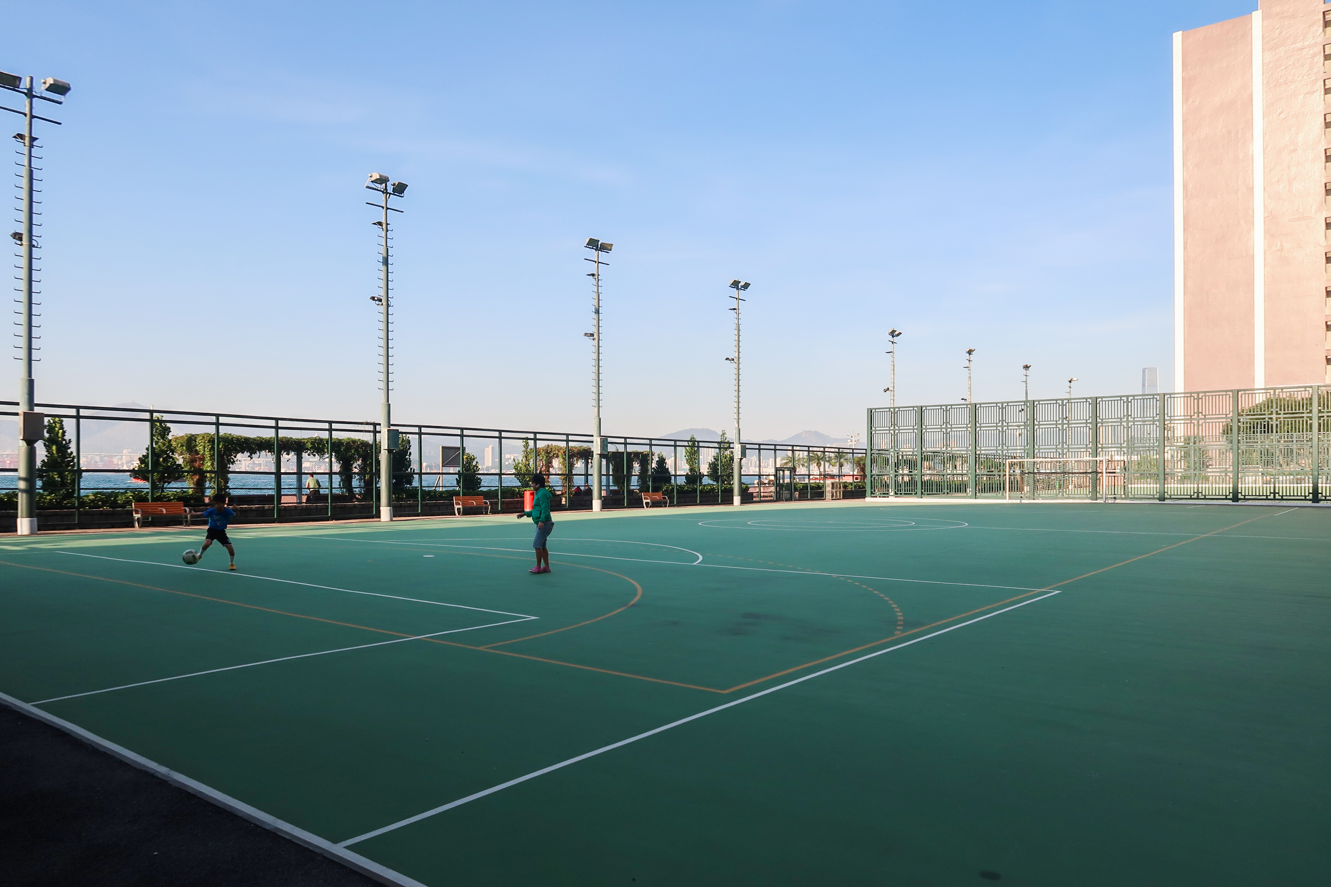 Kennedy Town Temporary Recreation Ground